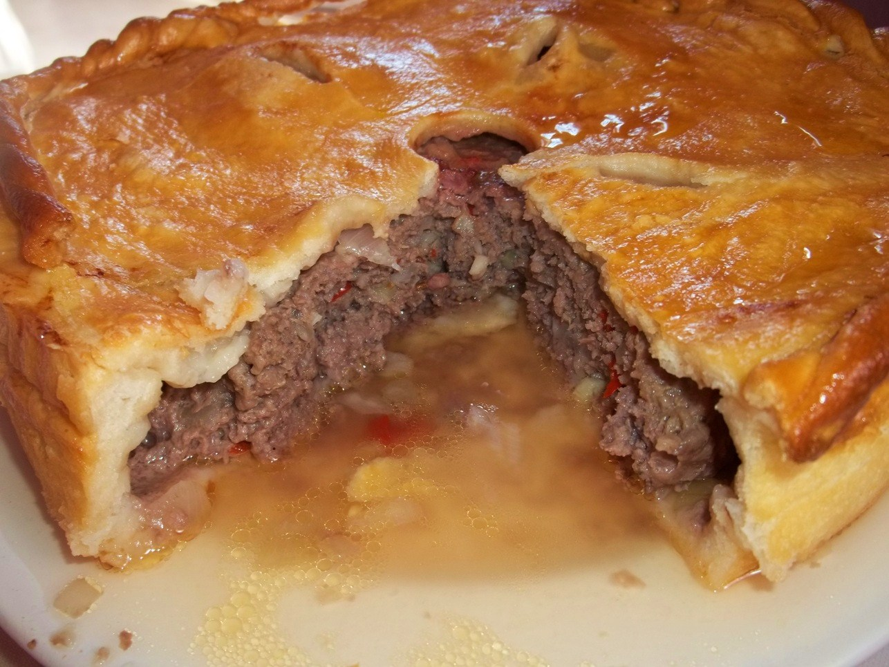 Fydzhin, Ossetian meat pie